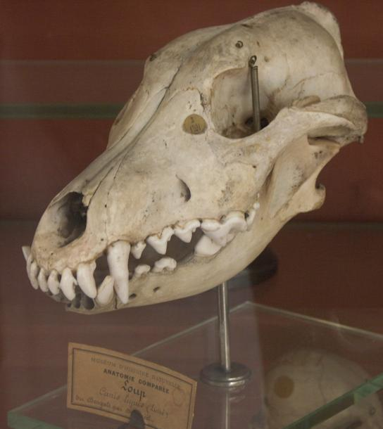 Skull of an Indian Wolf from the Muséum national d'histoire naturelle